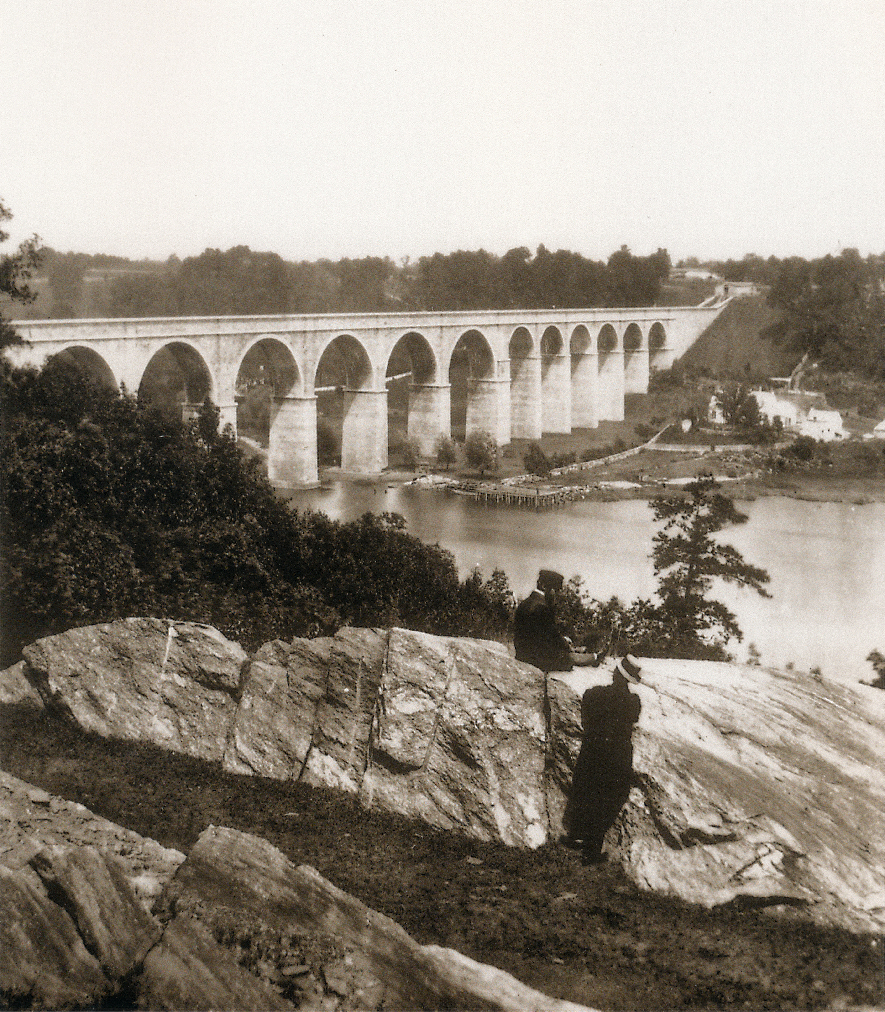 High Bridge (New York City) crossing the Harlem River